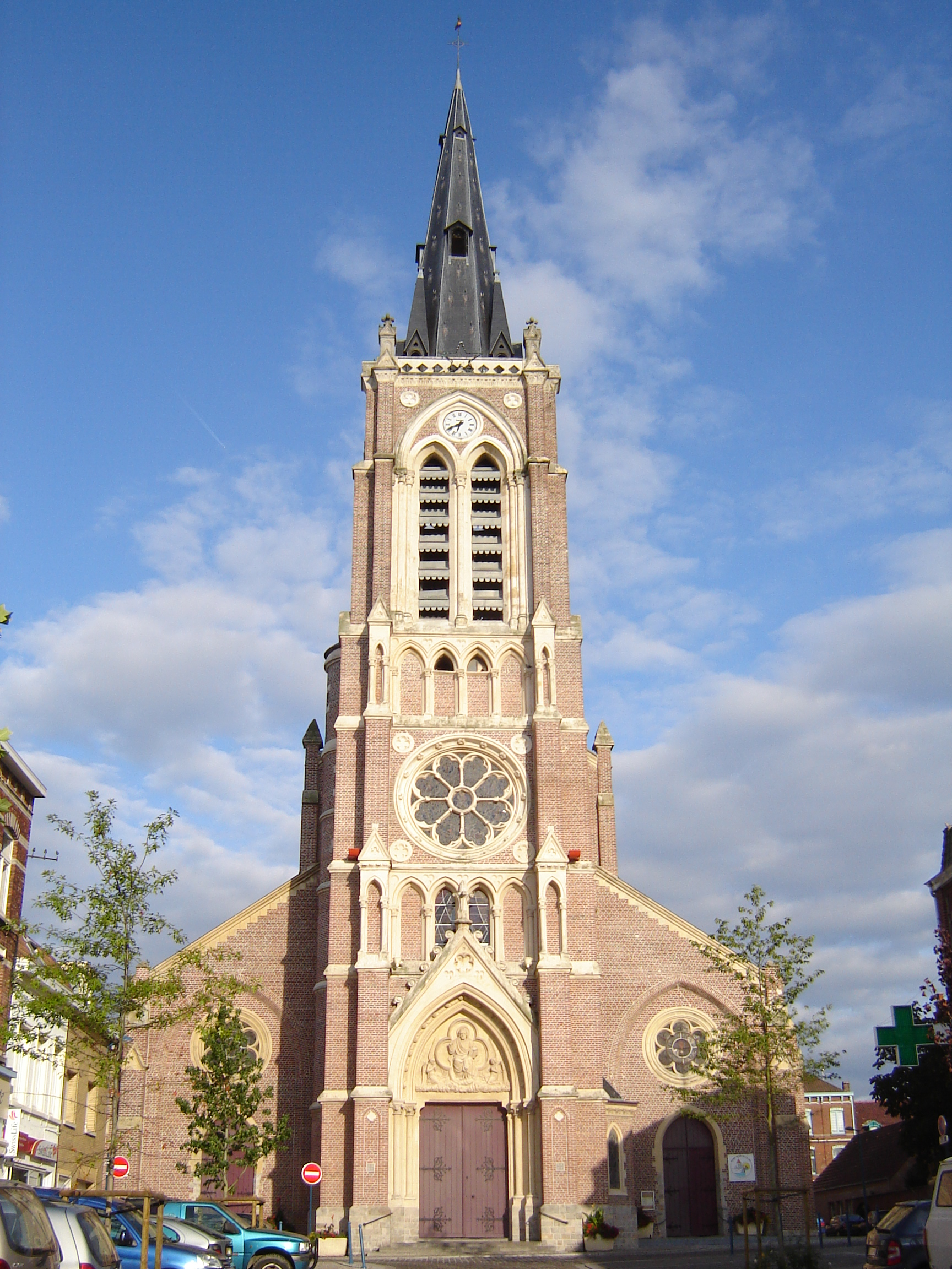 Church of Saint Hilary in Halluin. Halluin, Nord, Nord-Pas-de-Calais, France